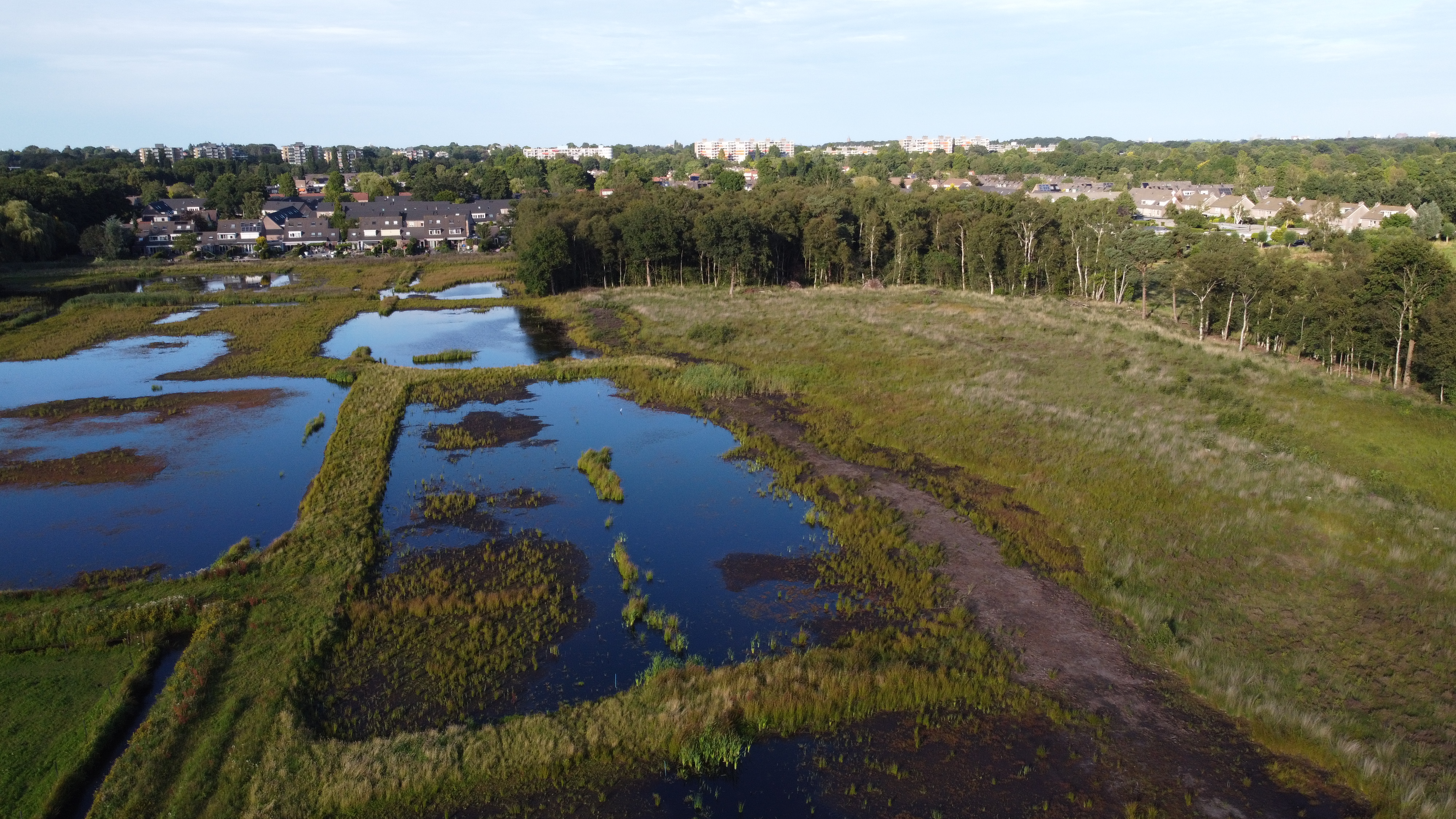 A photo of the Soesterveen made with a drone on 22 July 2020 by Ferry Kok. On the right the oldest part of the area, on the left the enlargement of the area (since 2018)